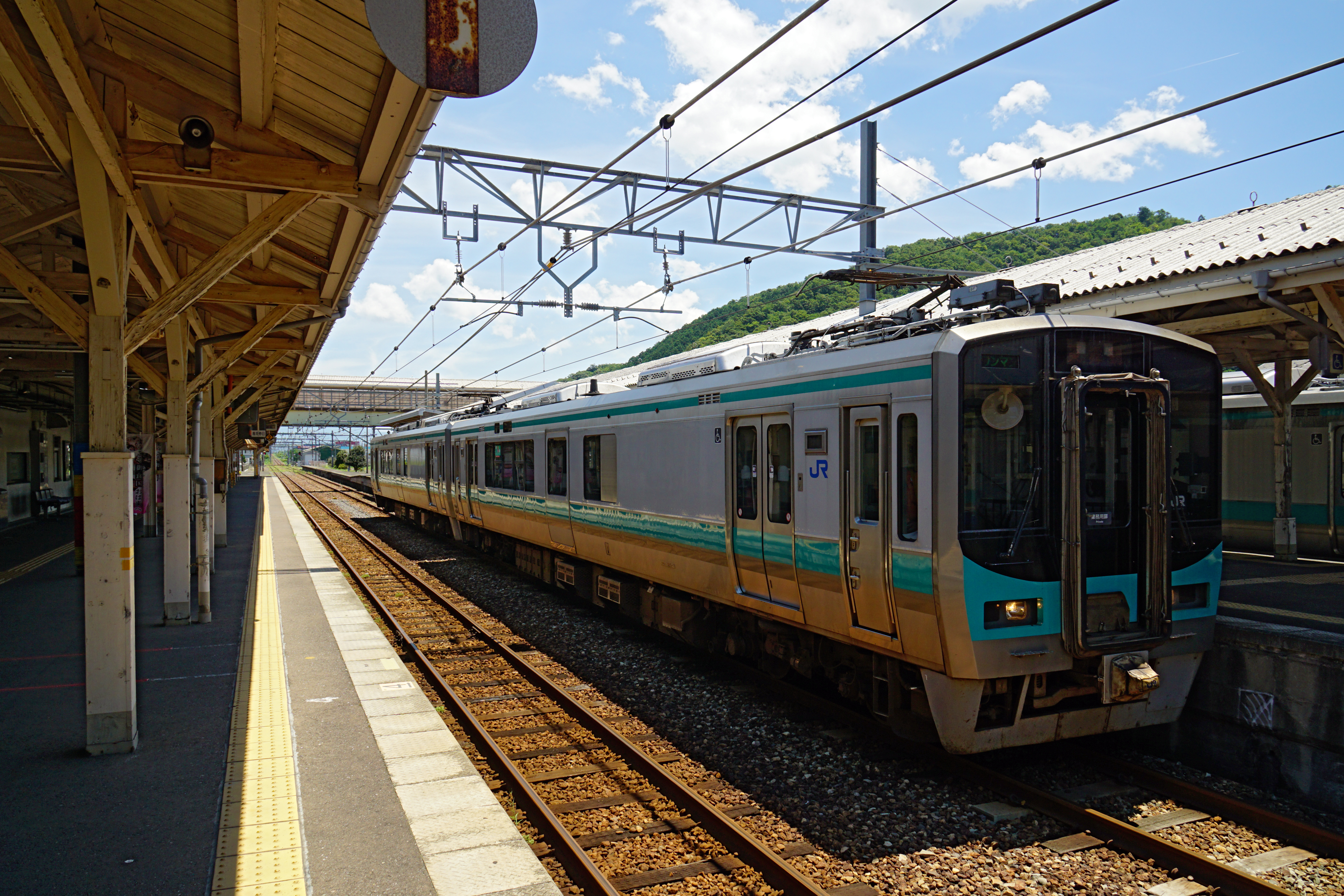 Obama Station in Obama, Fukui prefecture, Japan.